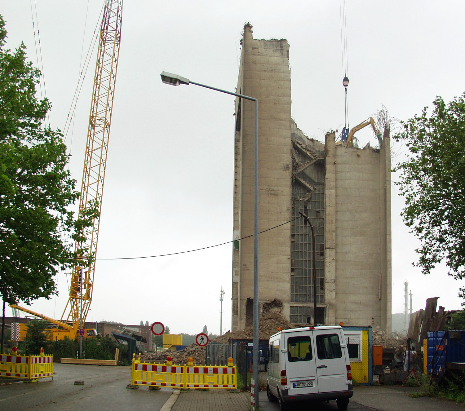 Demolition of the winding tower of coal mine "Rheinpreußen", mine shaft no. 9 in Moers, Germany